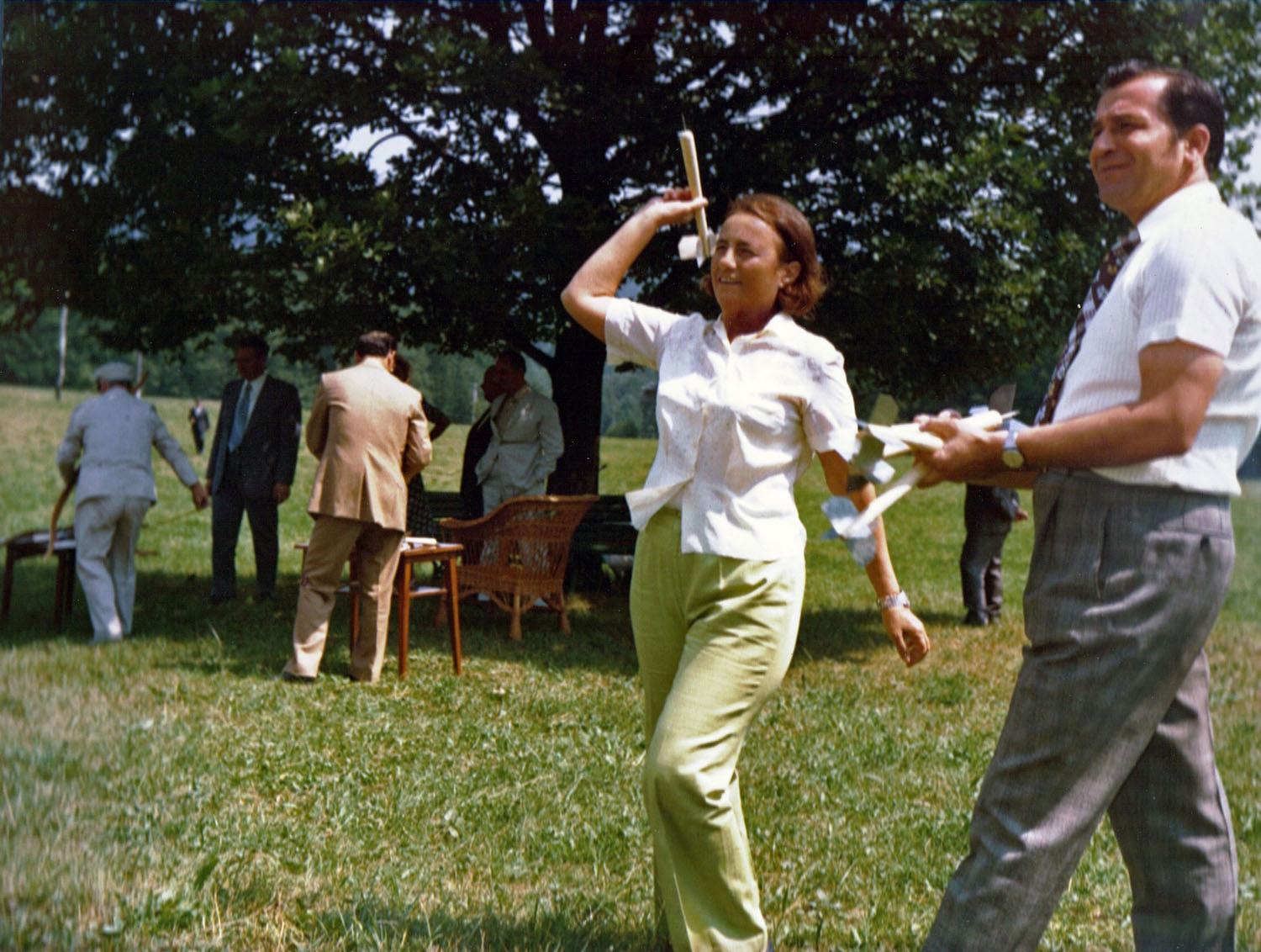 Ion Iliescu and Ceausescu Family